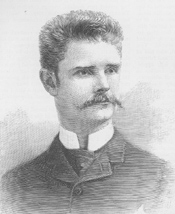 former congressman Thomas F. Magner of New York.